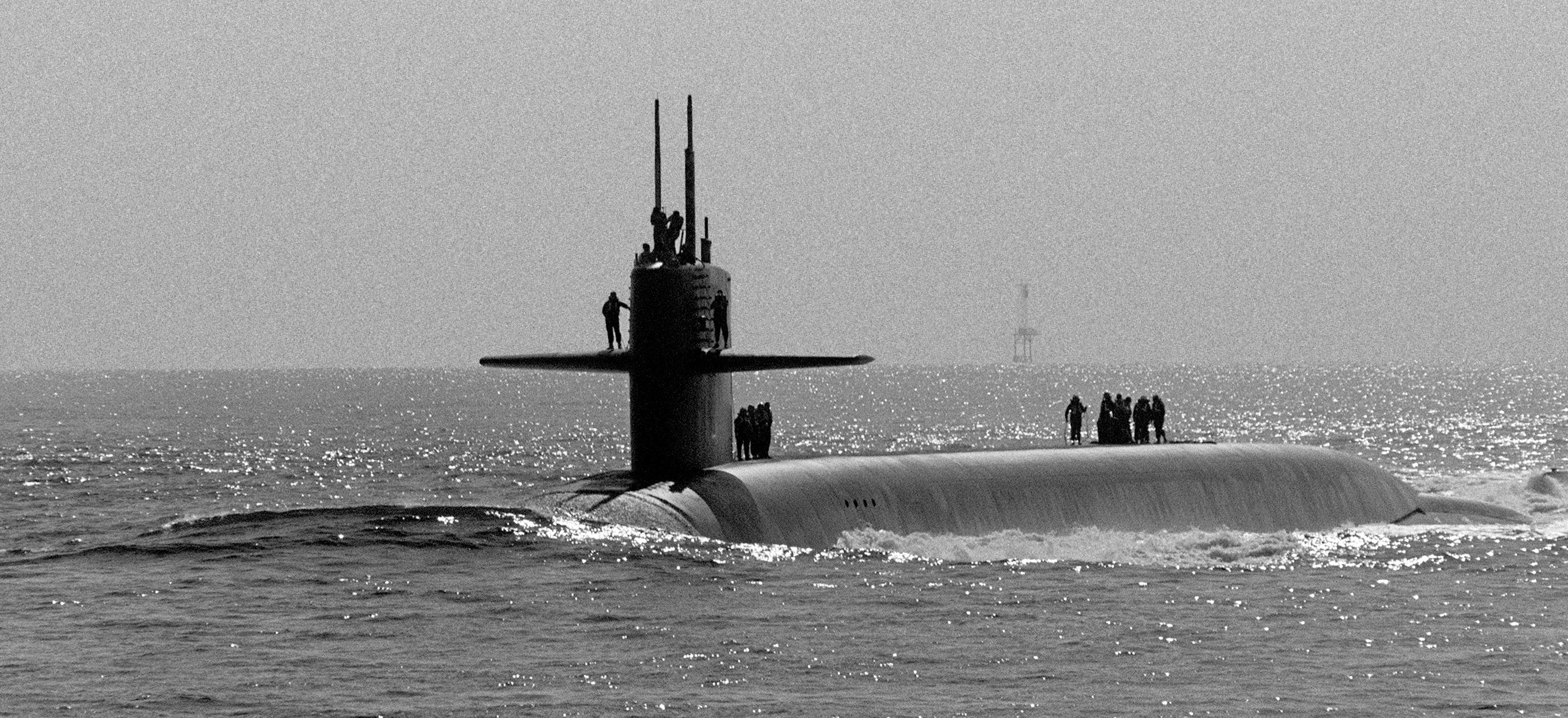 The nuclear-powered ballistic missile submarine USS Tennessee (SSBN-734), heads out to sea.